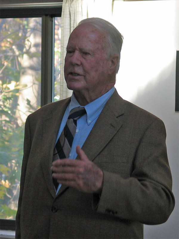 Description: Photograph of Philip H. Hoff speaking at Marlboro College. Source: Photograph taken by Jared C. Benedict on 12 October 2004. Copyright: Â© Jared C. Benedict.